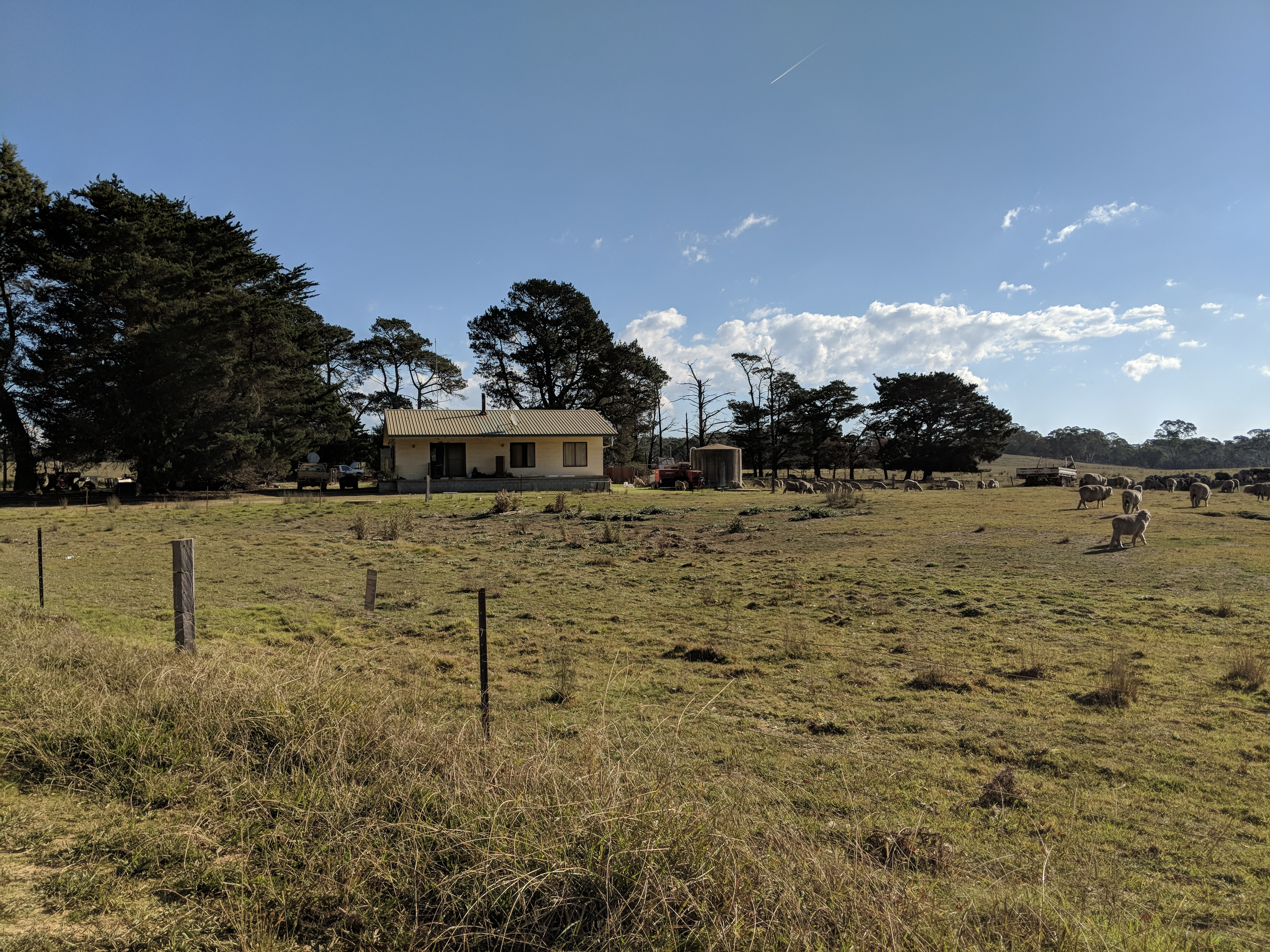 House in Charleyong or Marlowe, New South Wales